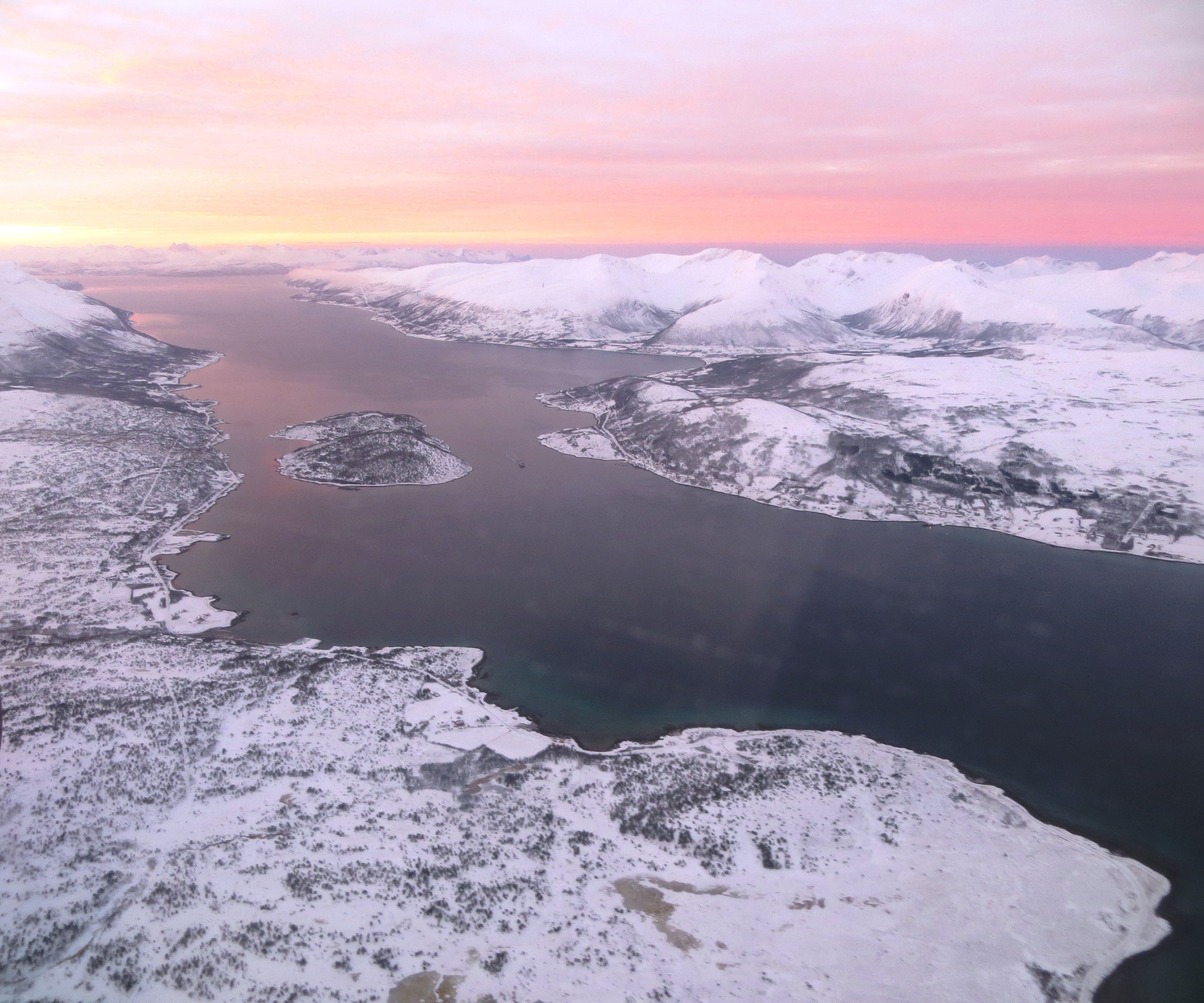 Aerial view of the Straumsfjorden in the municipality of Balsfjord, south of Tromsø, in Troms county (Norway). Between the small island Ryøy and the large island Kvaløy to the right, a Coast Guard ship is passing through the Storstraumen branch of the fjord. The Norwegian mainland is on the left.